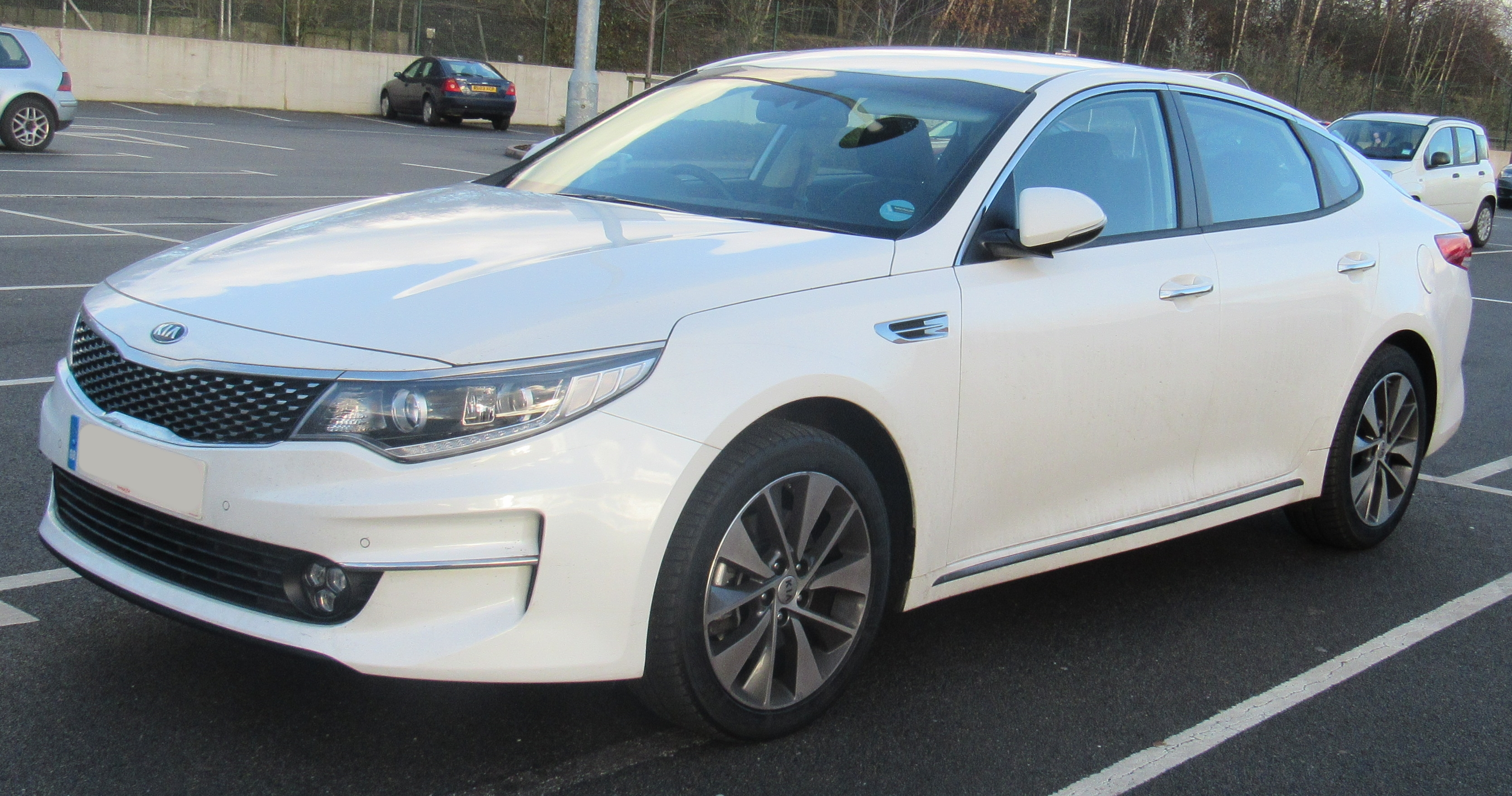 2015 Kia Optima 3 ISG CRDi 1.7 Front Taken in Leamington Spa